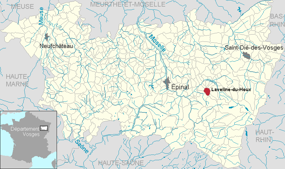 Laveline-du-Houx in the department of Vosges, Lorraine, France